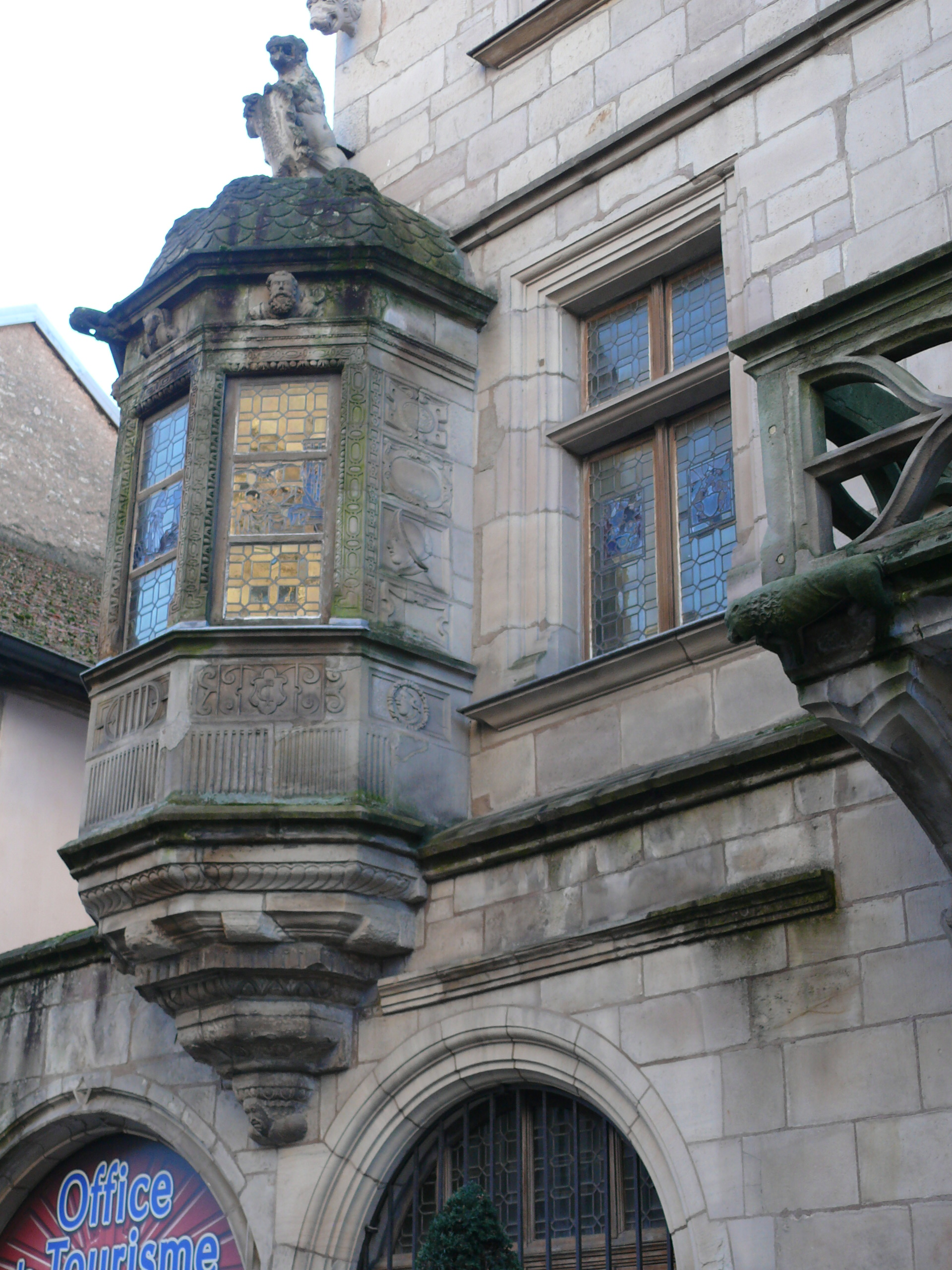 Bartizan of the "Maison du cardinal Jouffroy" in Luxeuil-les-Bains, Haute-Saône, France